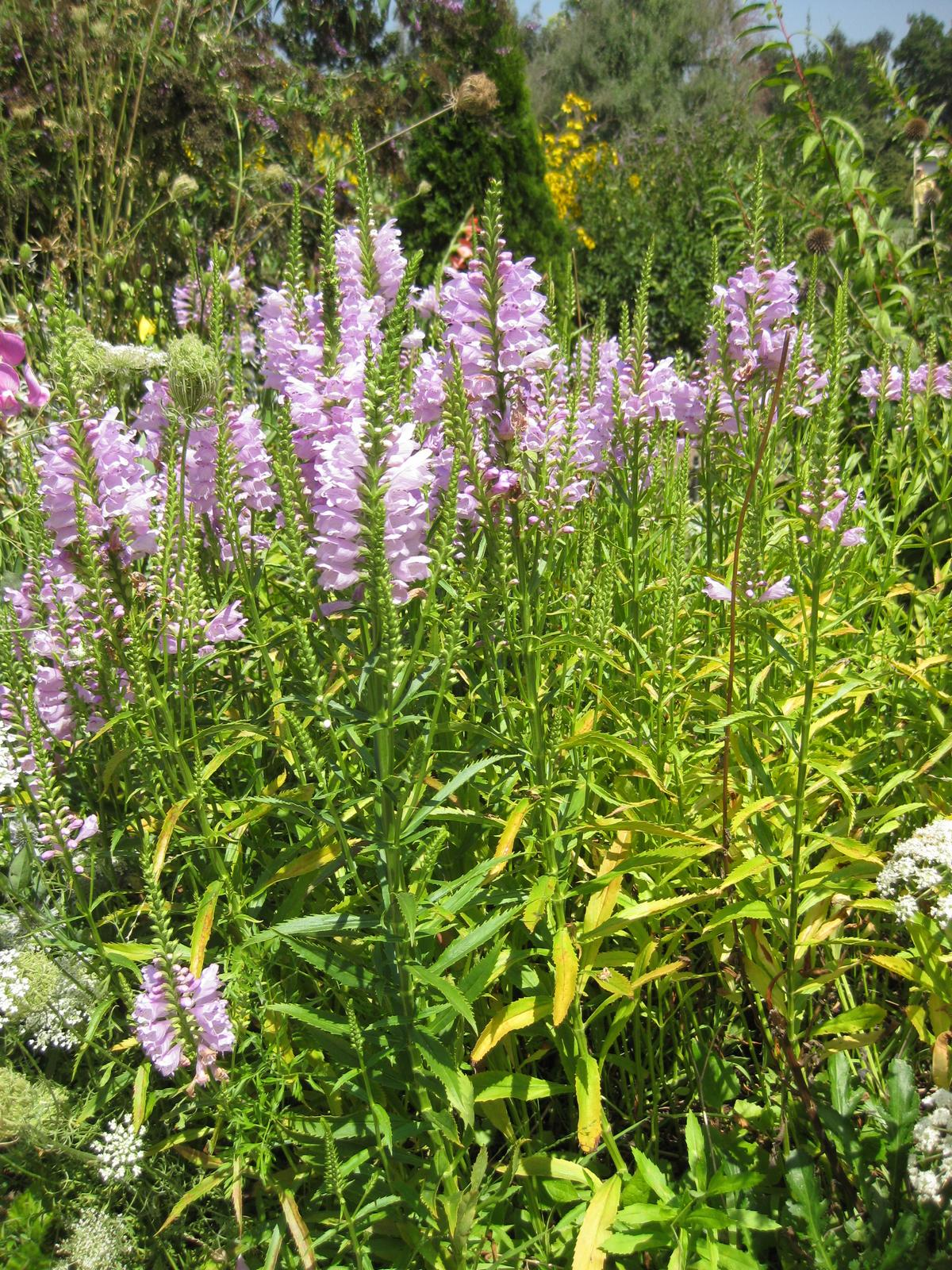 Photographed at Huntington Gardens (Los Angeles, California) in August